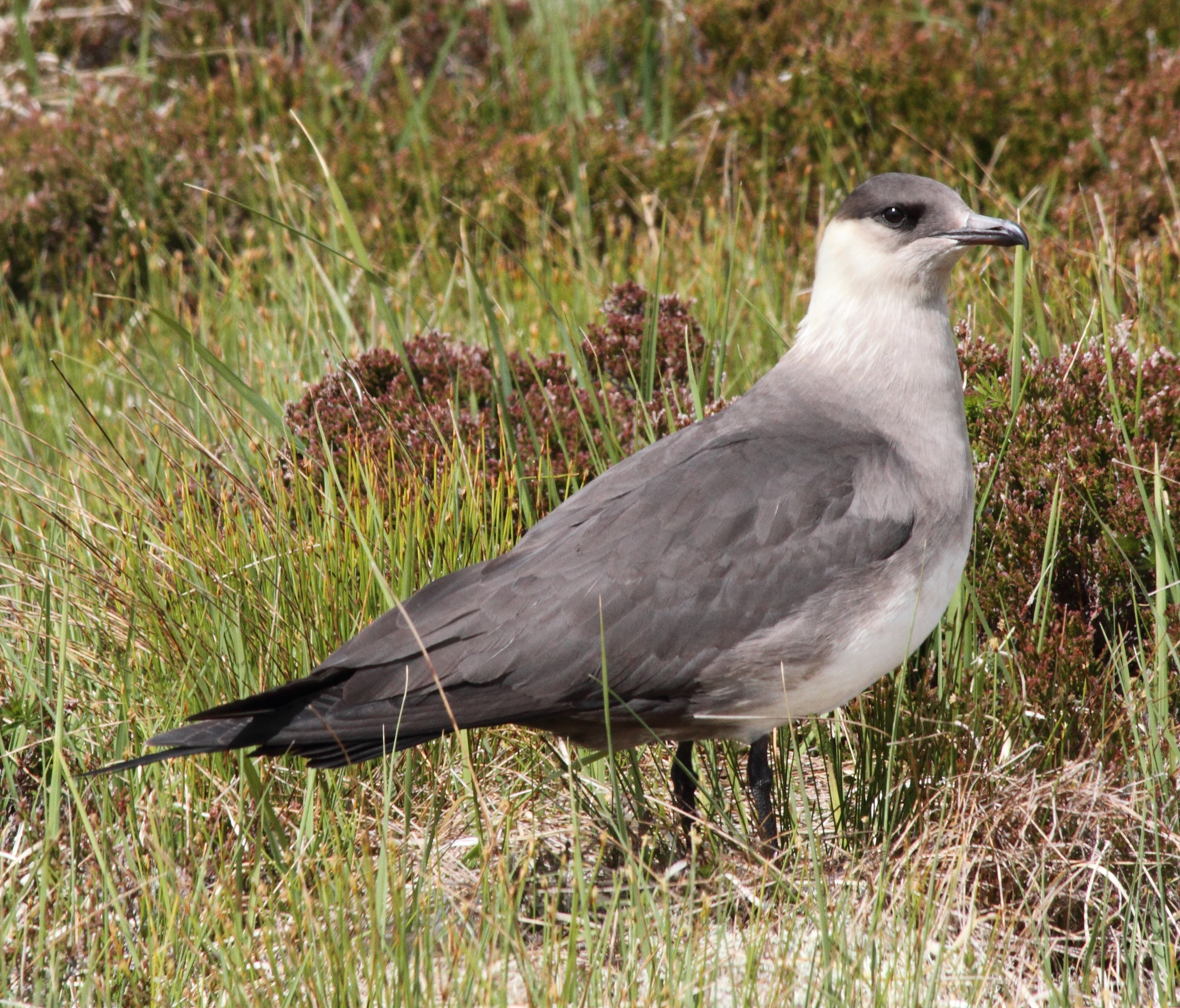 Arctic Skua on Handa Island, Northern Highlands, Scotland